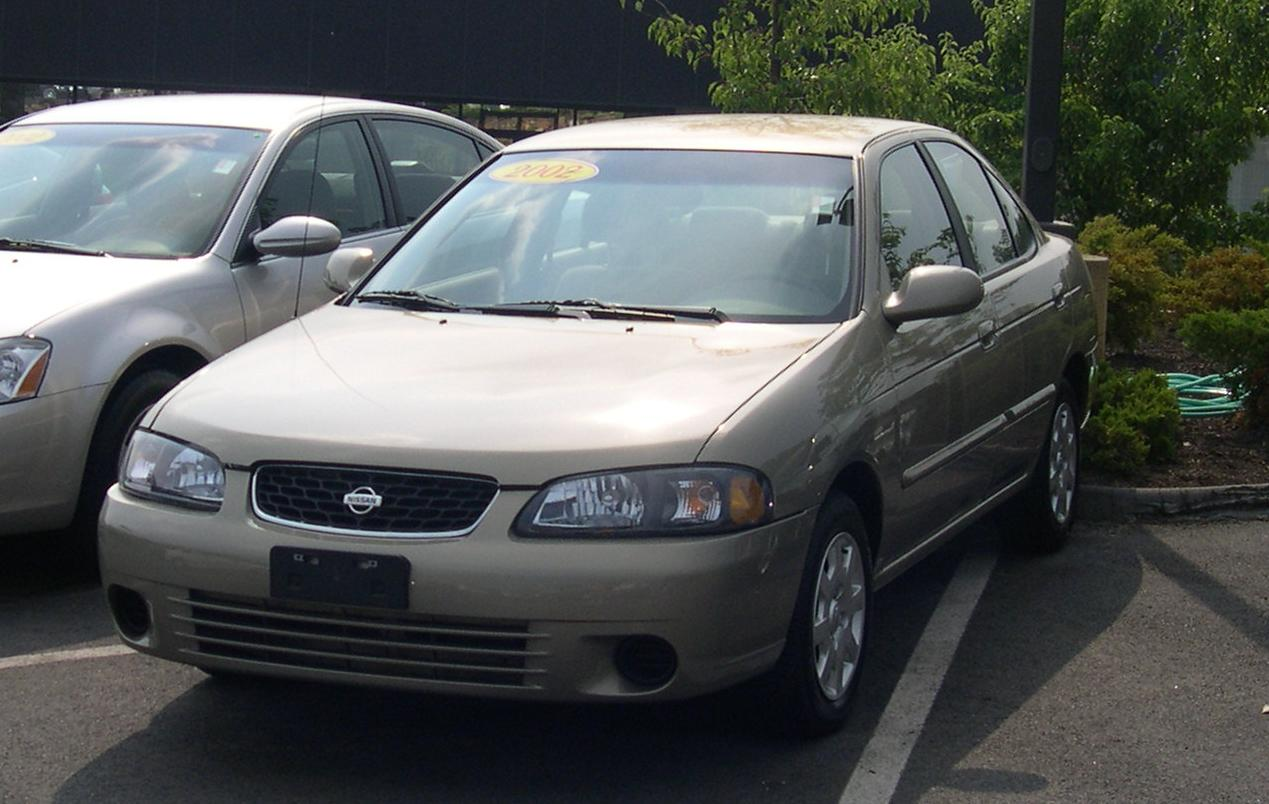 2002 Nissan Sentra Source: Photo by User:Sfoskett